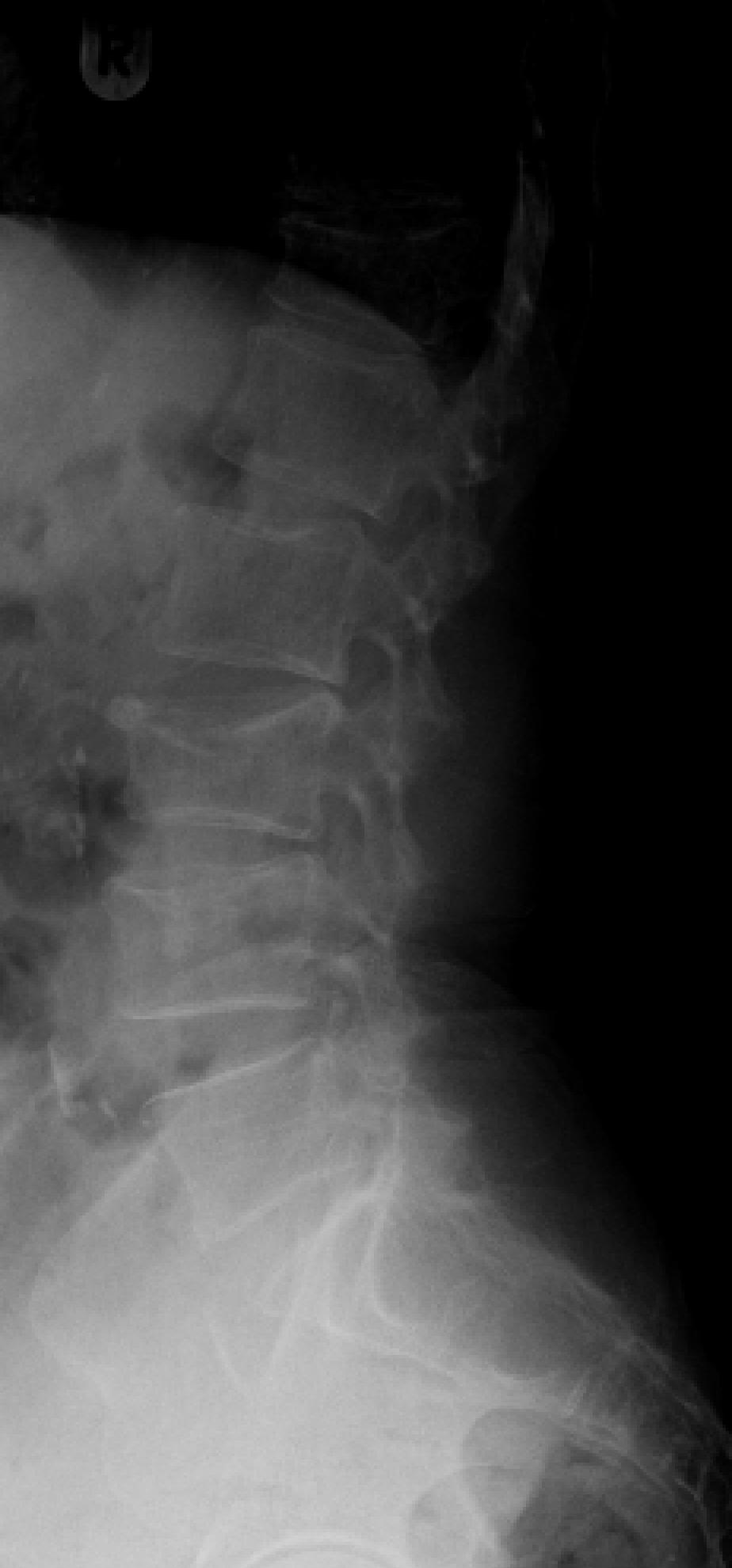 X-ray of the lumbar spine with a compressionfracture of L3.